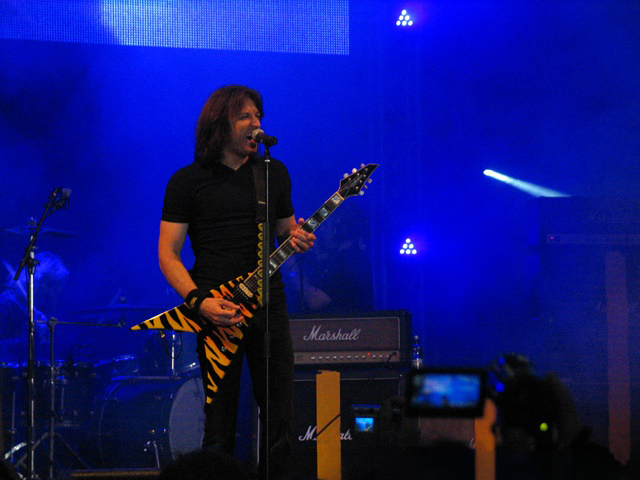 Michael Sweet of Stryper at Skjærgårds M&M, 2006